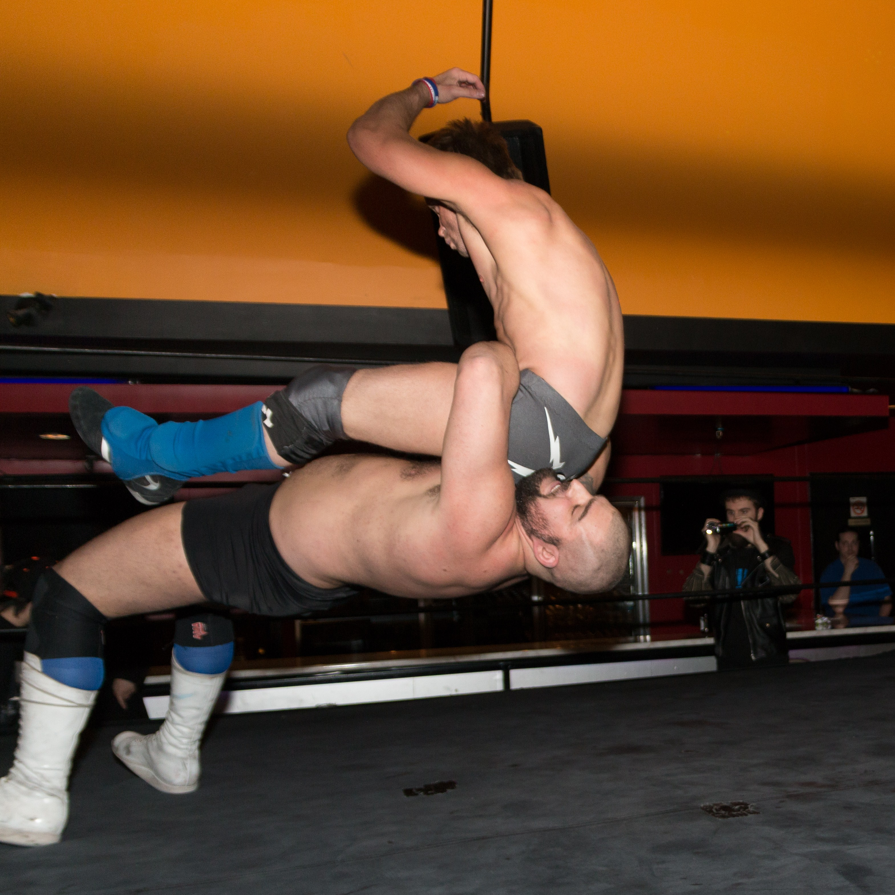 Mathieu St Jacques (in white boots) executing a german suplex on Gregory Iron